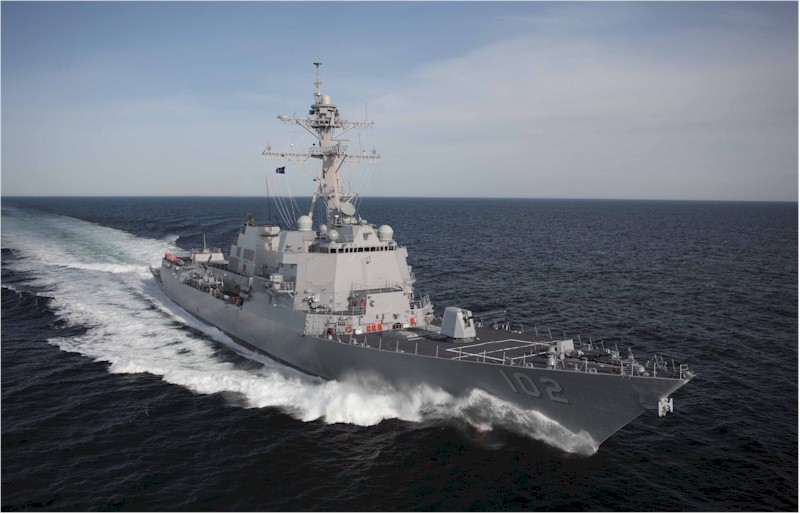 views from USS Sampson (DDG-102) sea trials, April 24 2007. Navsource and GSMC (SW) Clint Ellis